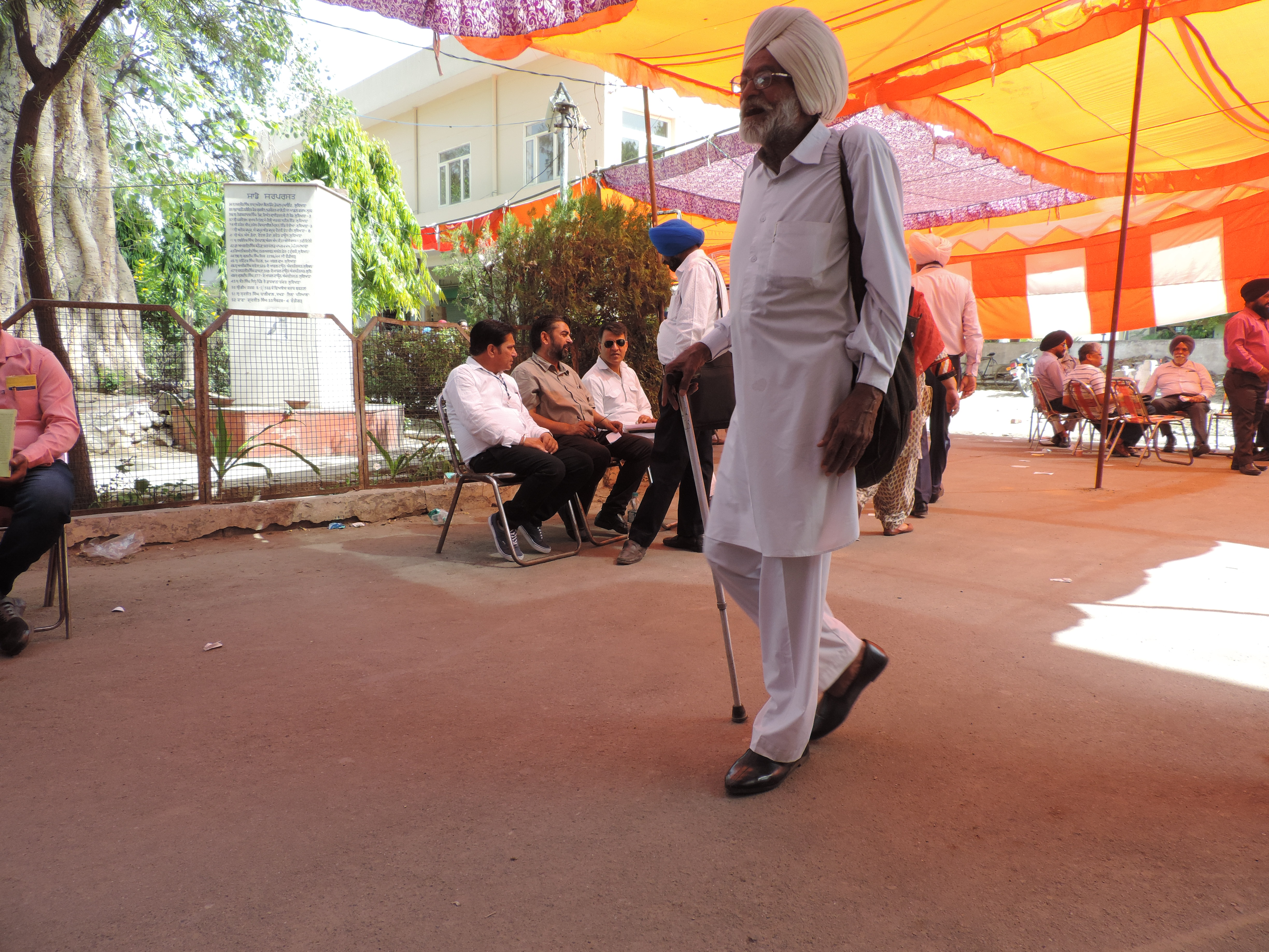 Om Parkash Gaso Punjabi language writer,Punjab,India